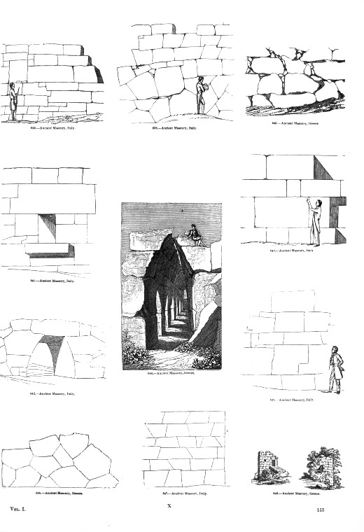 From Charles Knight's Pictorial Gallery of Arts, England, 1858. Illustration of Ancient masonry, from Italy, Greece